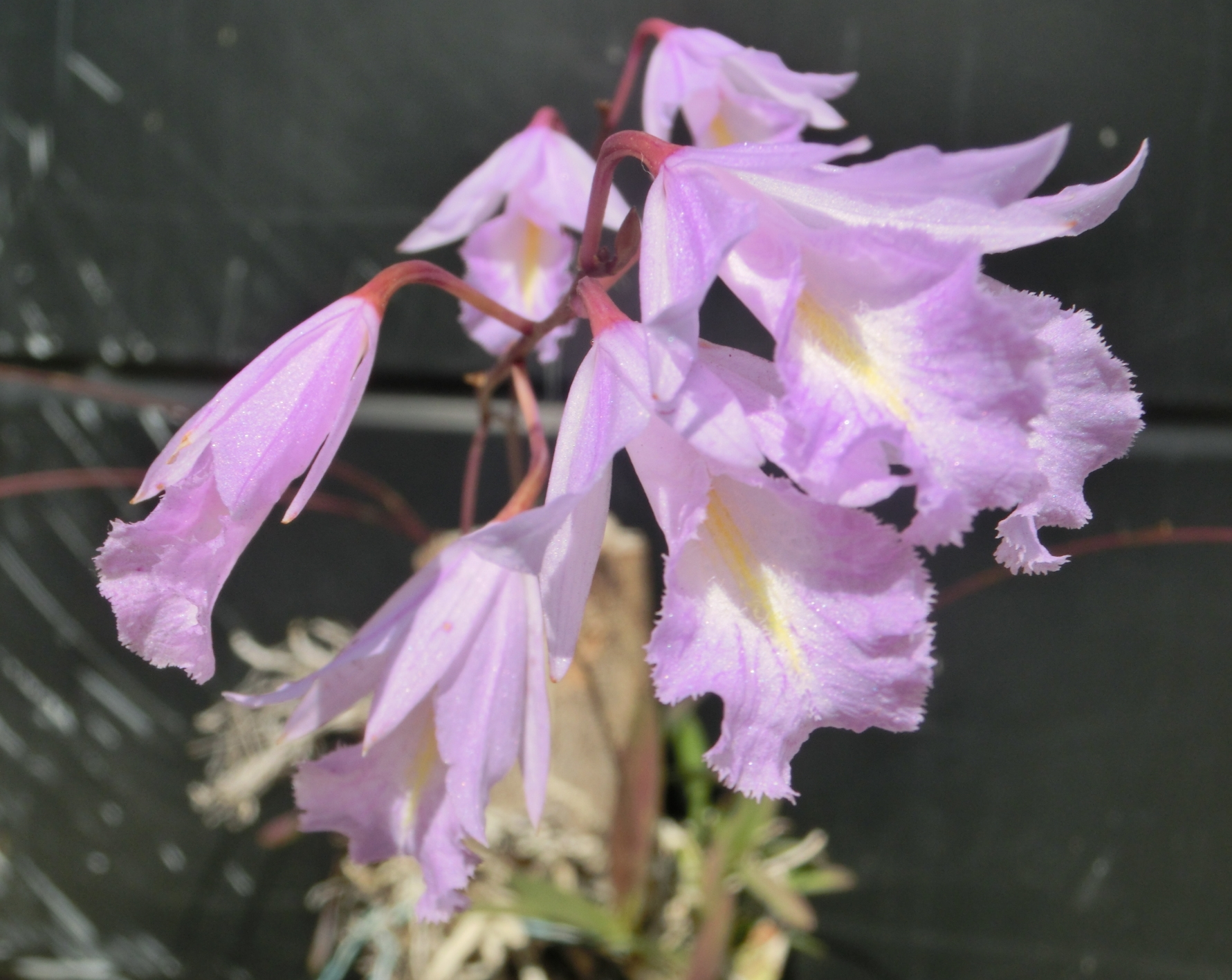 Broughtonia domingensis, flowers of a cultured plant.